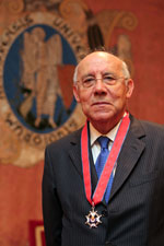 Juan Fornes 20110322